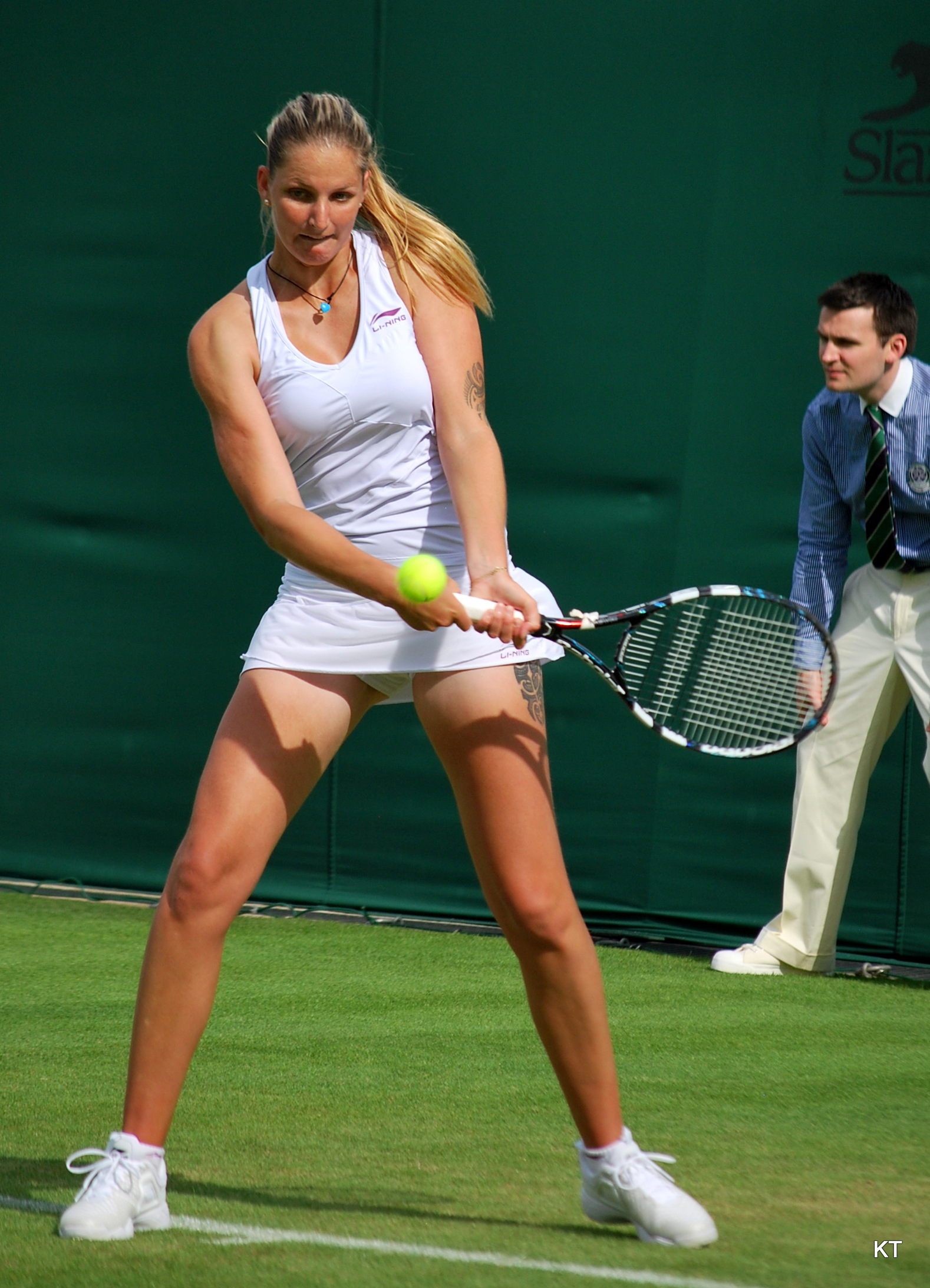 Karolina Pliskova during her first round match with Sloane Stephens on Day 1 of Wimbledon 2012.